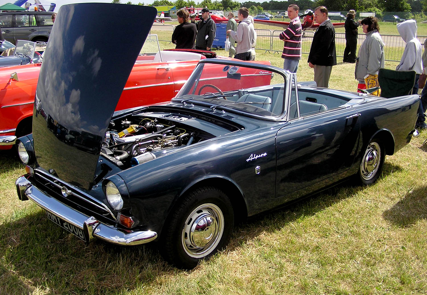 1964 Sunbeam Alpine IV at Kemble Air Day, Gloucestershire, England. Taken by Adrian Pingstone in June 2004 and released to the public domain.